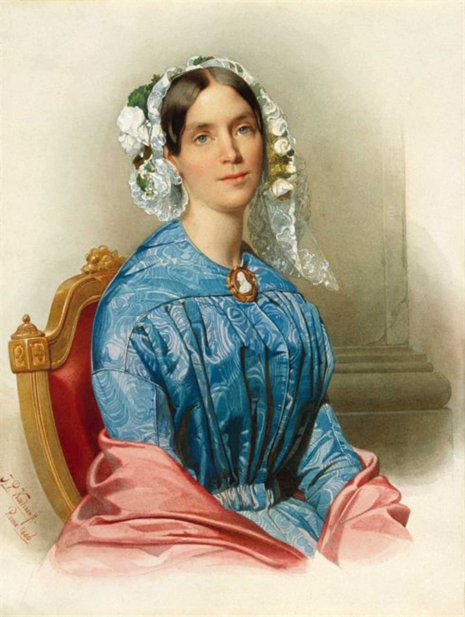 Wilhelmina Frederica Louisa Charlotte Marianne van Oranje-Nassau, water colour on paper